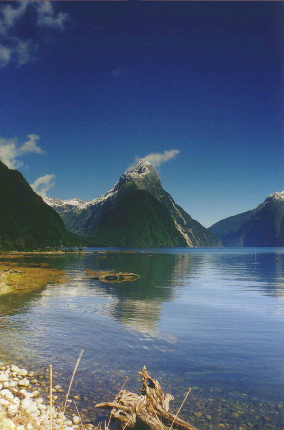 Photograph of Mitre Peak, New Zealand, taken by James Dignan (user:Grutness) in 2000.